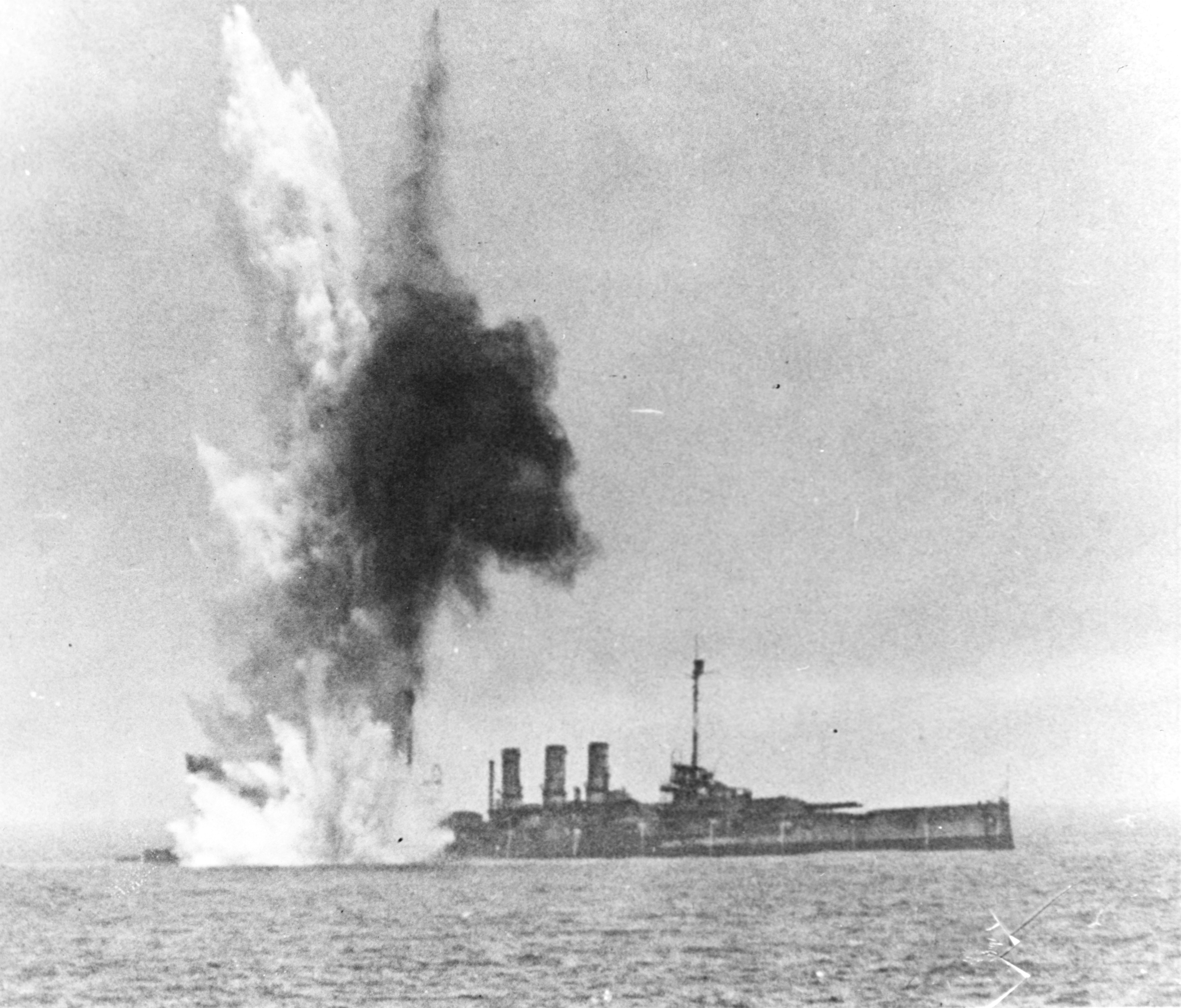 Ex-German battleship Ostfriesland takes a gigantic blow from a 2,000 lb. aerial bomb burst far enough below the surface that fountains of water erupt high above both sides of the ship. Minutes later, the target ship sank by the stern. This was the finale of Billy Mitchell's anti-ship bombing demonstration in July 1921.